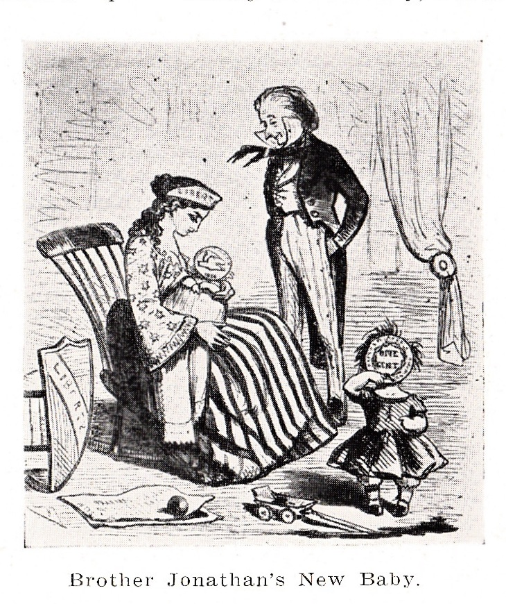 Cartoon from the February 1857 issue of Harper's Magazine (Reproduced in the April 1919 The Numismatist, p. 155). Brother Jonathan (a predecessor of Uncle Sam) looks on proudly at his new child, the Flying Eagle cent, as the neglected Large Cent wails.